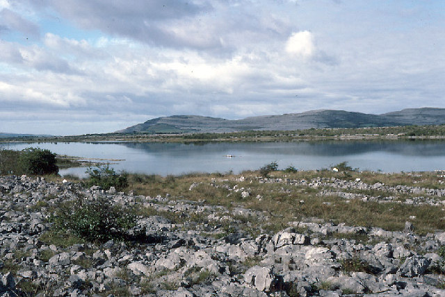 Lough Bunny, to the northern side of Mullach Mor. Unlike some other Burren loughs, this one is always full: it is not a turlough. Mullach Mor is the final "hummock" of the range of hills.